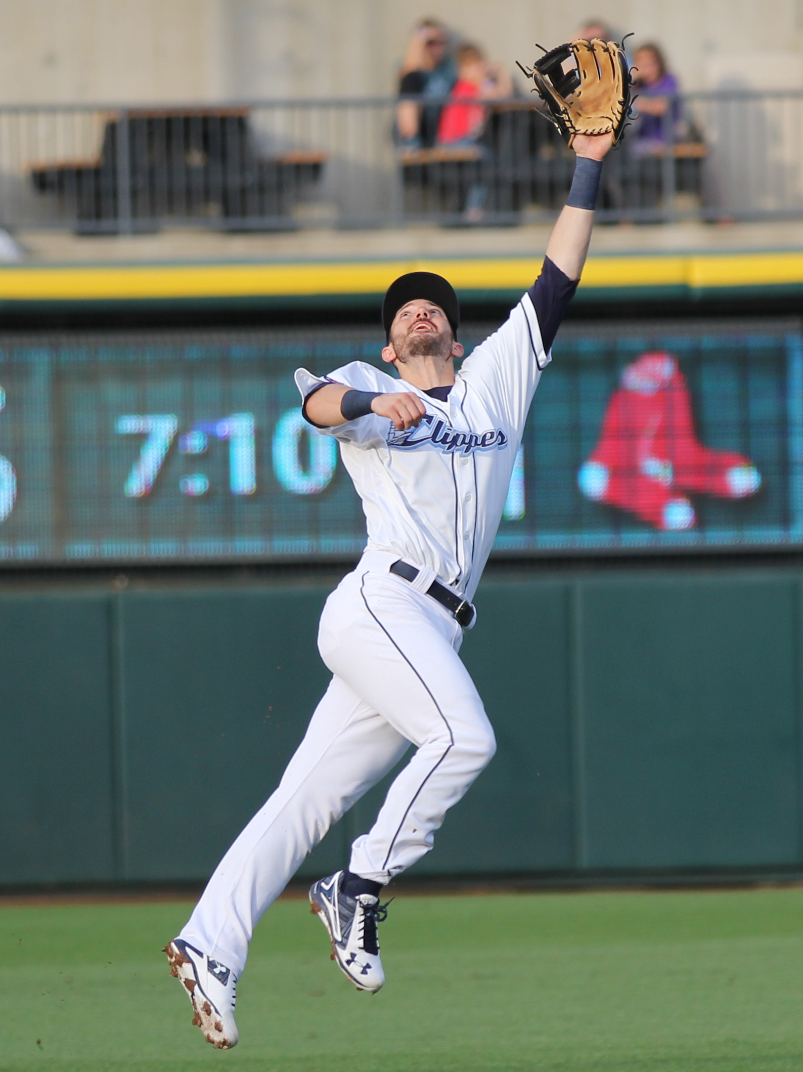 Eric Stamets of the Columbus Clippers leaps for a ball during a 2018 game at Huntington Park in Columbus, Ohio